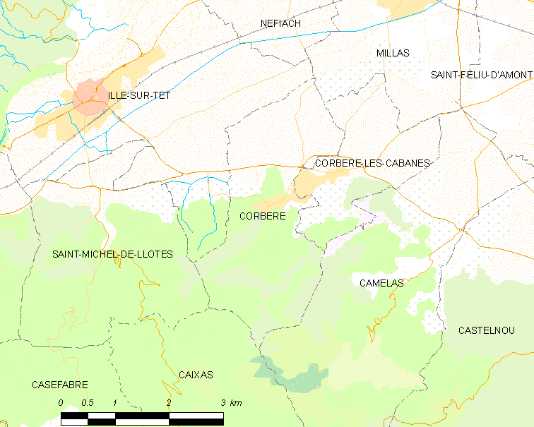 Map of French municipality